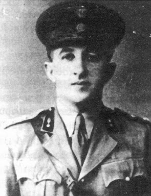 Hellenic Army Artilerry Officer Konstantinos Versis, hero of WWII